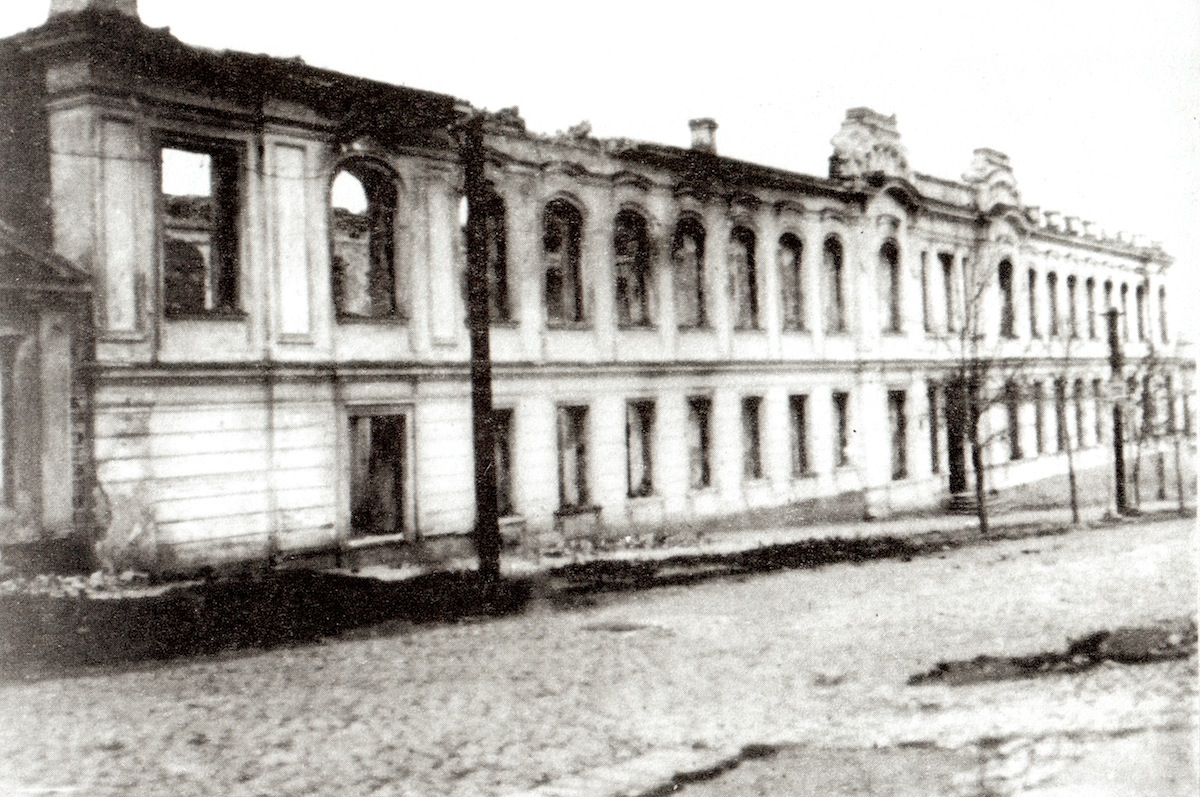 The school No.4 in Taganrog blown up by the occupation authorities before retreat